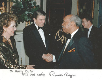 Benny Carter shaking hands with US President Ronald Reagan